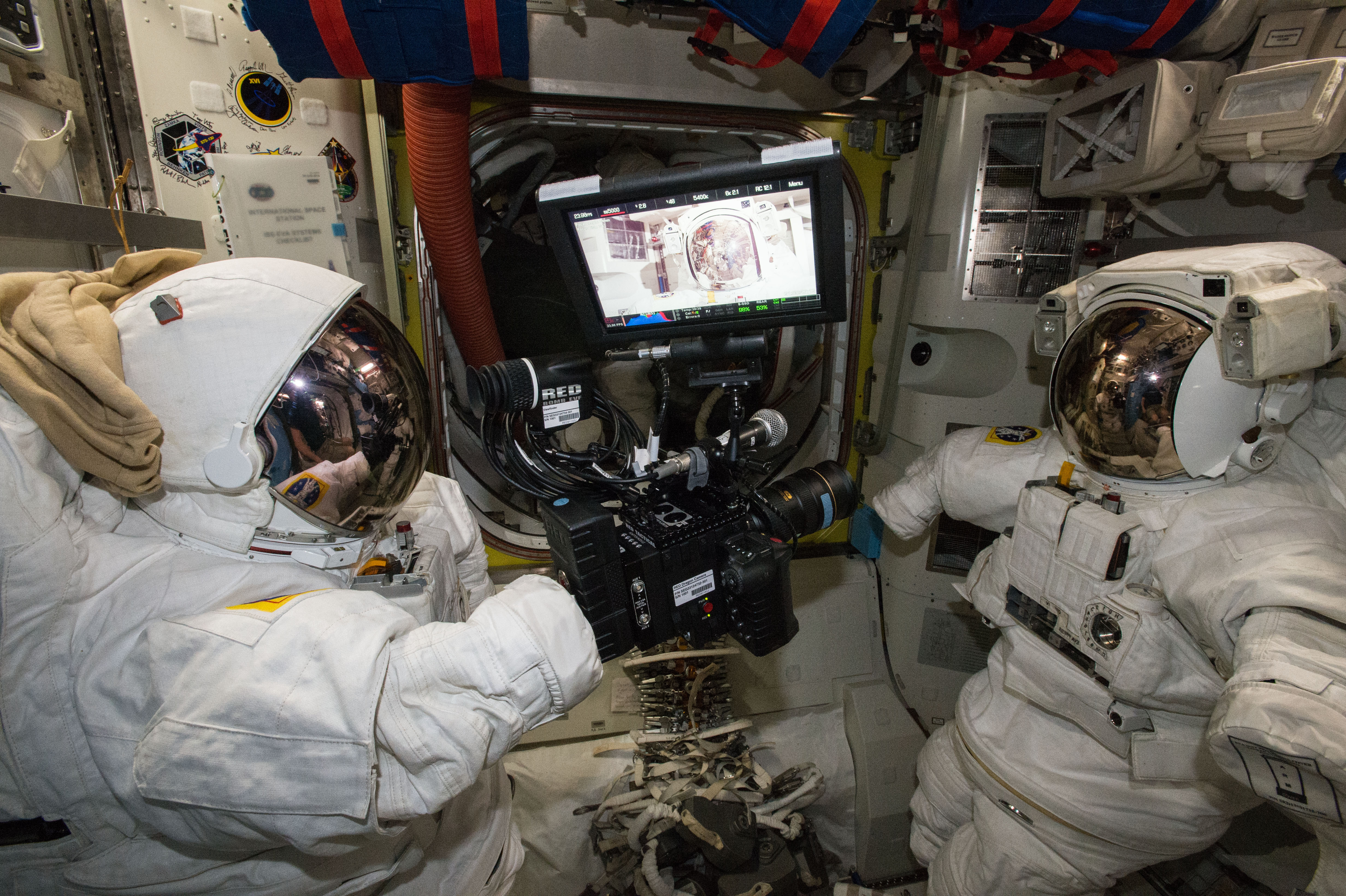 View of RED video camera and display monitor floating between two Extravehicular Mobility Units (EMUs) in the airlock.